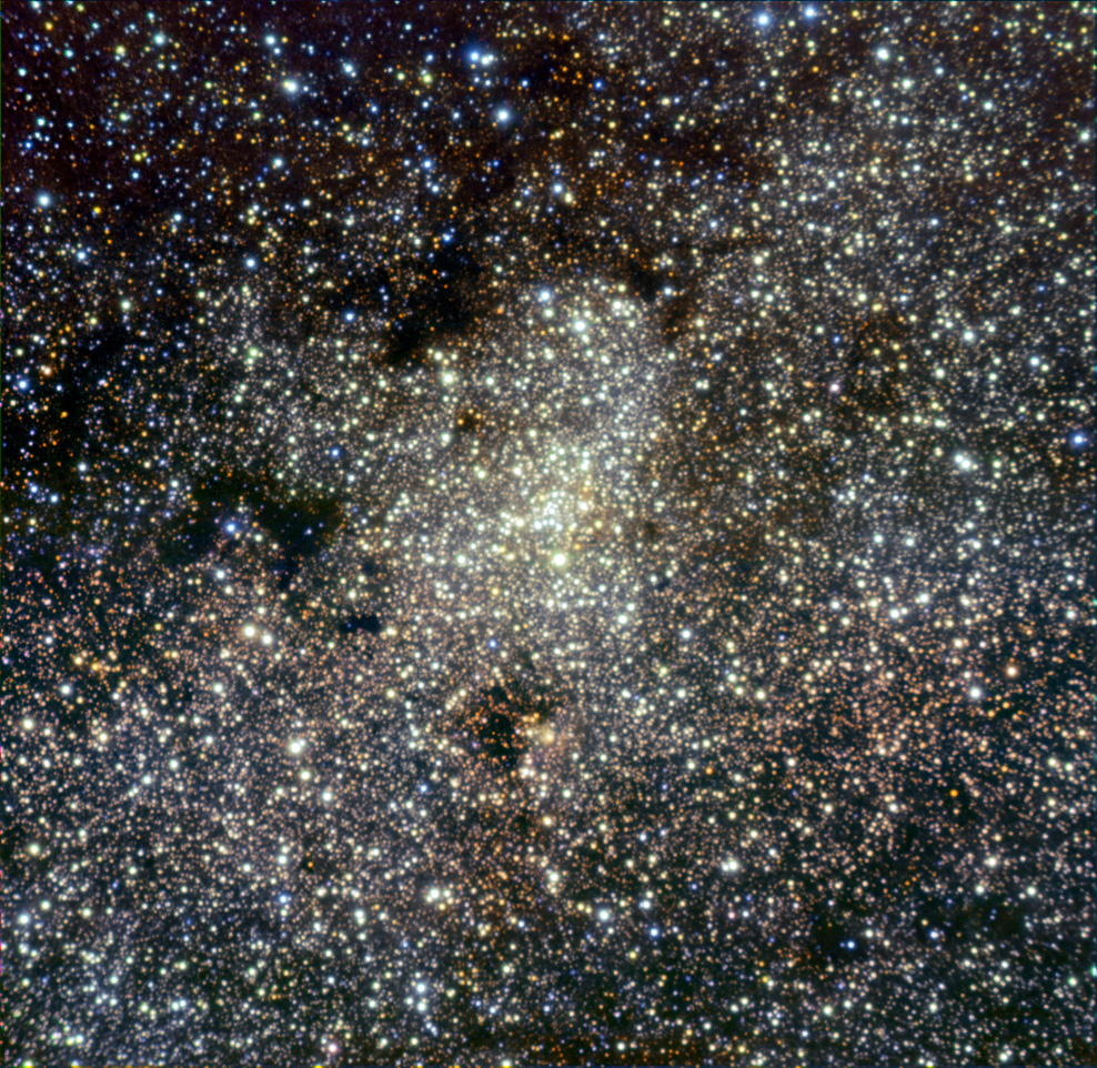 The centre of our own galaxy, the Milky Way, is again in the sights of ESO telescopes. This time it’s the turn of ISAAC, the VLT’s near- and mid-infrared spectrometer and camera. From Chile’s Atacama Desert, site of the ESO observatories, the Milky Way offers magnificent views, particularly in the southern hemisphere winter, when the central region of our galaxy is most visible (see eso0934). However, the Galactic Centre itself, located about 27 000 light-years away in the constellation of Sagittarius, hides behind thick clouds of interstellar dust, which appear as dark obscuring lanes in visible light, but which are transparent at longer wavelengths such as the infrared. In this image, the infrared observations clearly reveal the dense clustering of stars in the galactic core. ESO telescopes have been tracking stars orbiting the centre of the Milky Way for more than 18 years, getting the highest resolution images of this area and providing a definitive proof of the existence of a supermassive black hole in the heart of our galaxy (read more in eso0226 and eso0846). Infrared flashes emitted by hot gas falling into the supermassive black hole have also been detected with ESO telescopes (see eso0330). This representative-colour picture is composed of images taken by ISAAC at near-infrared wavelengths through 2.25, 2.09, and 1.71 µm narrowband filters (shown in red, green and blue respectively). It covers a field of view of 2.5 arcminutes.